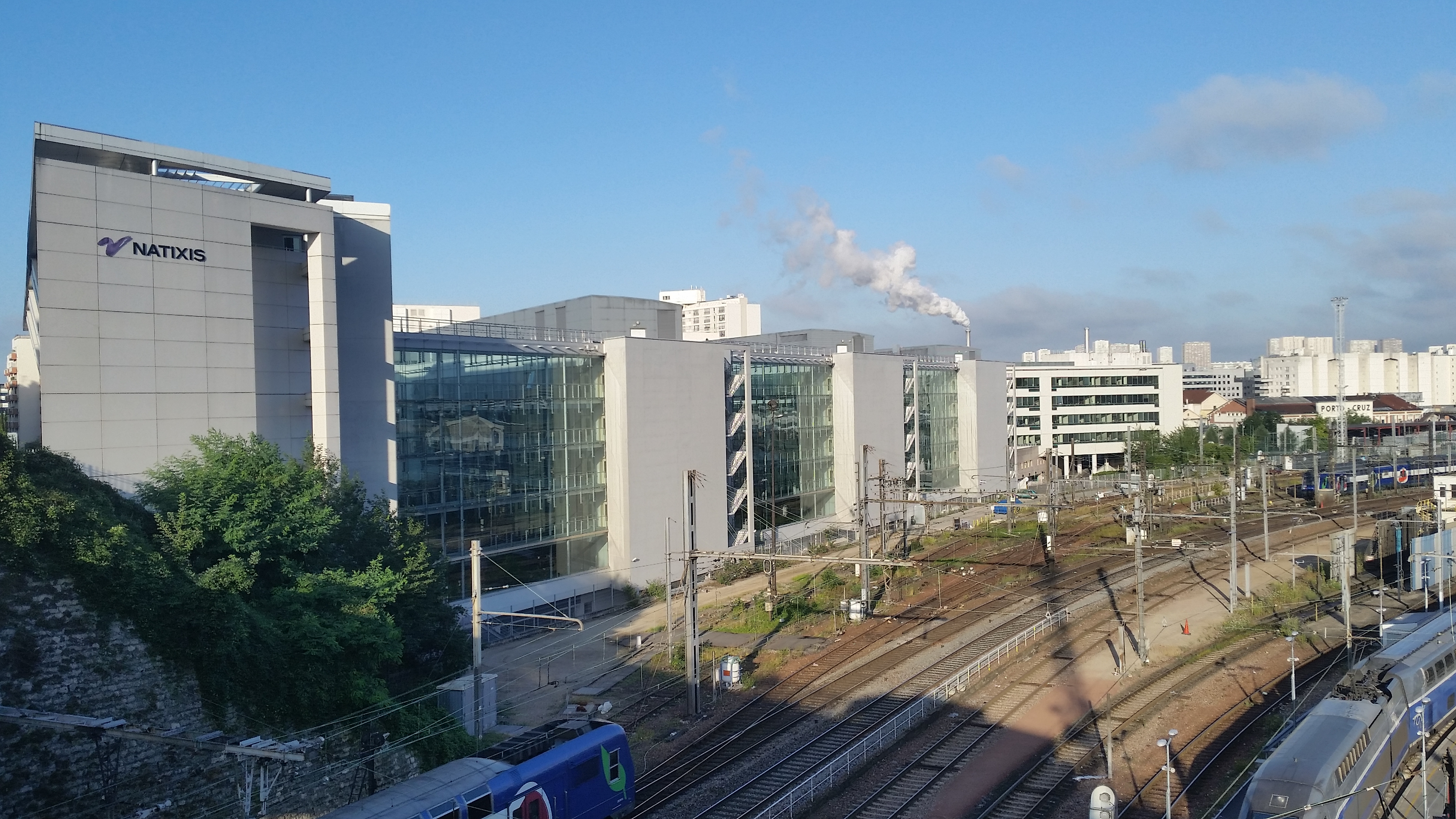 Liberty 2 building of Natixis business bank in Charenton, near Paris (France)